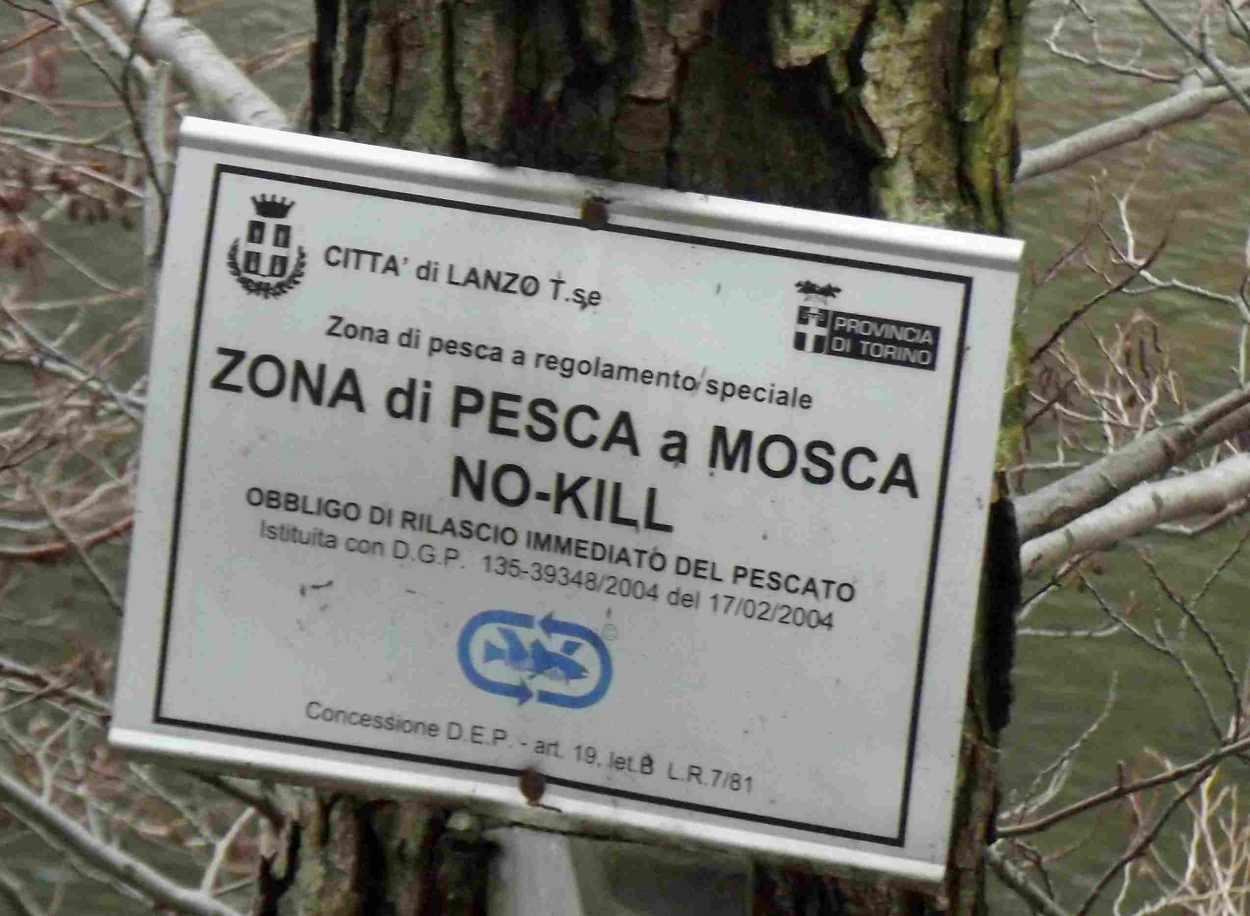 Catch & Release fishing area on the Stura di Lanzo (Lanzo Torinese, TO, Italy)